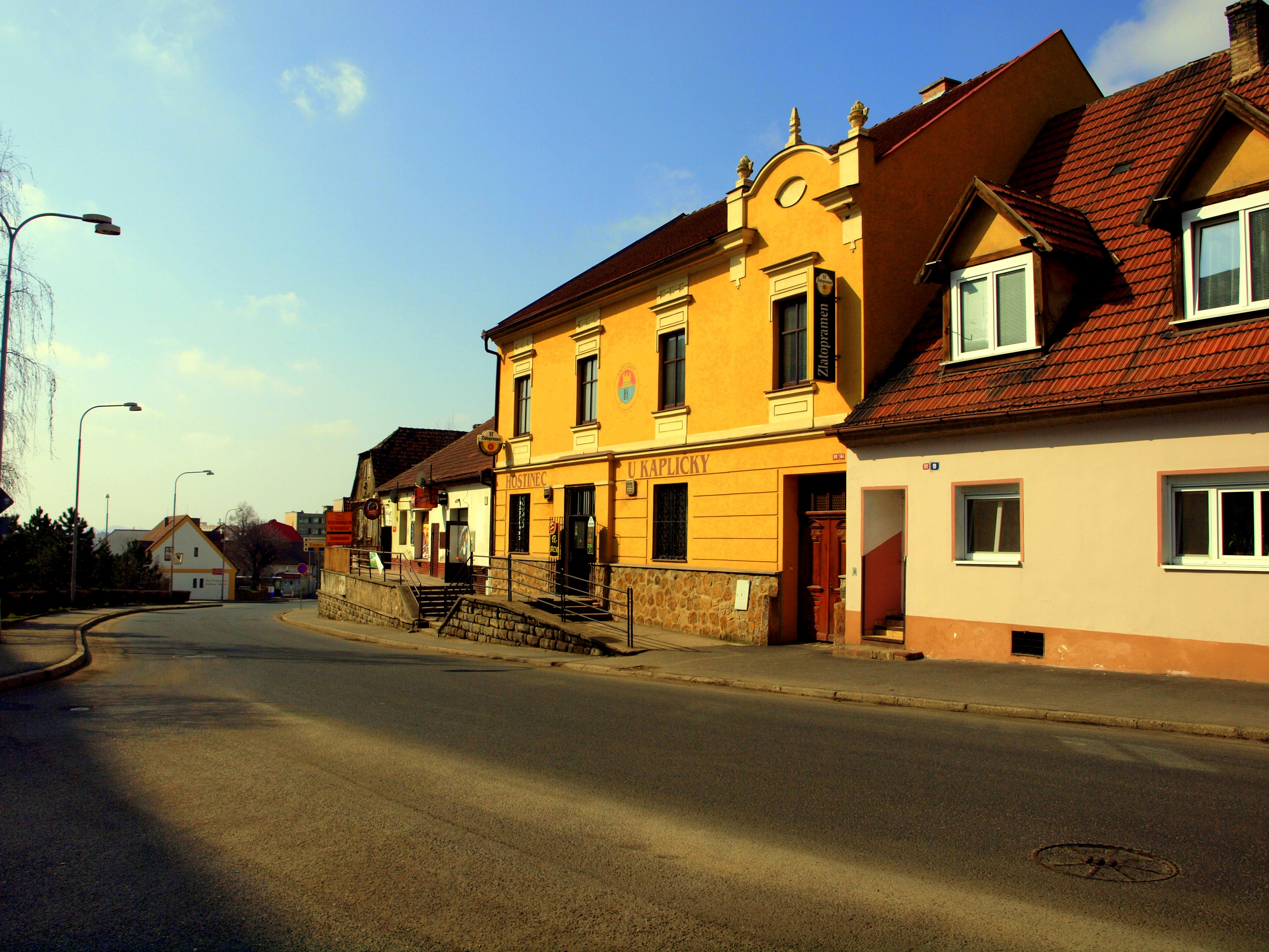 Pokratice